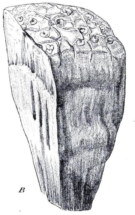 Pandanus drupaceus - Pandanus eydouxia - 1900 Illustration of drupes